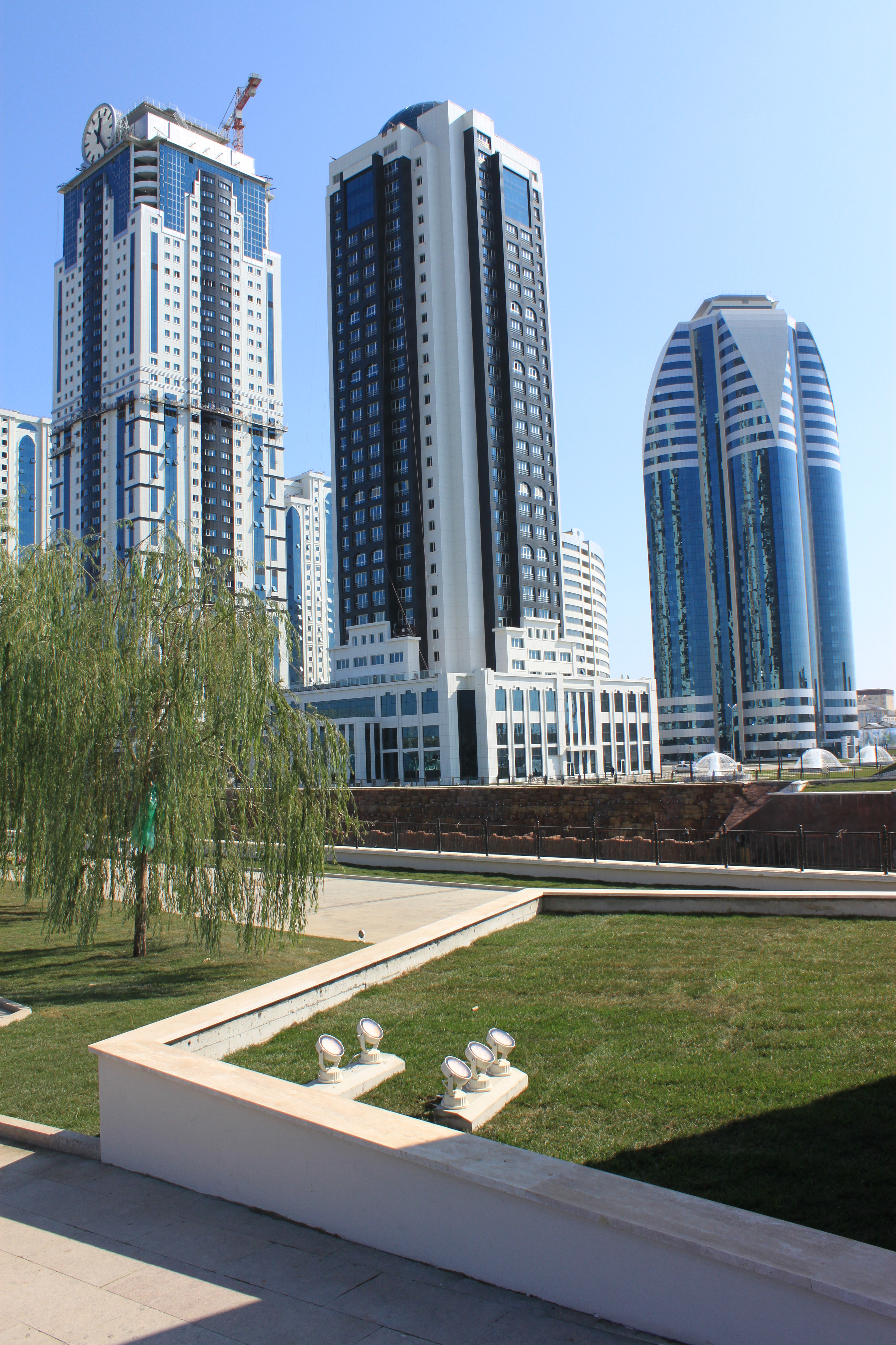 Grozny-City